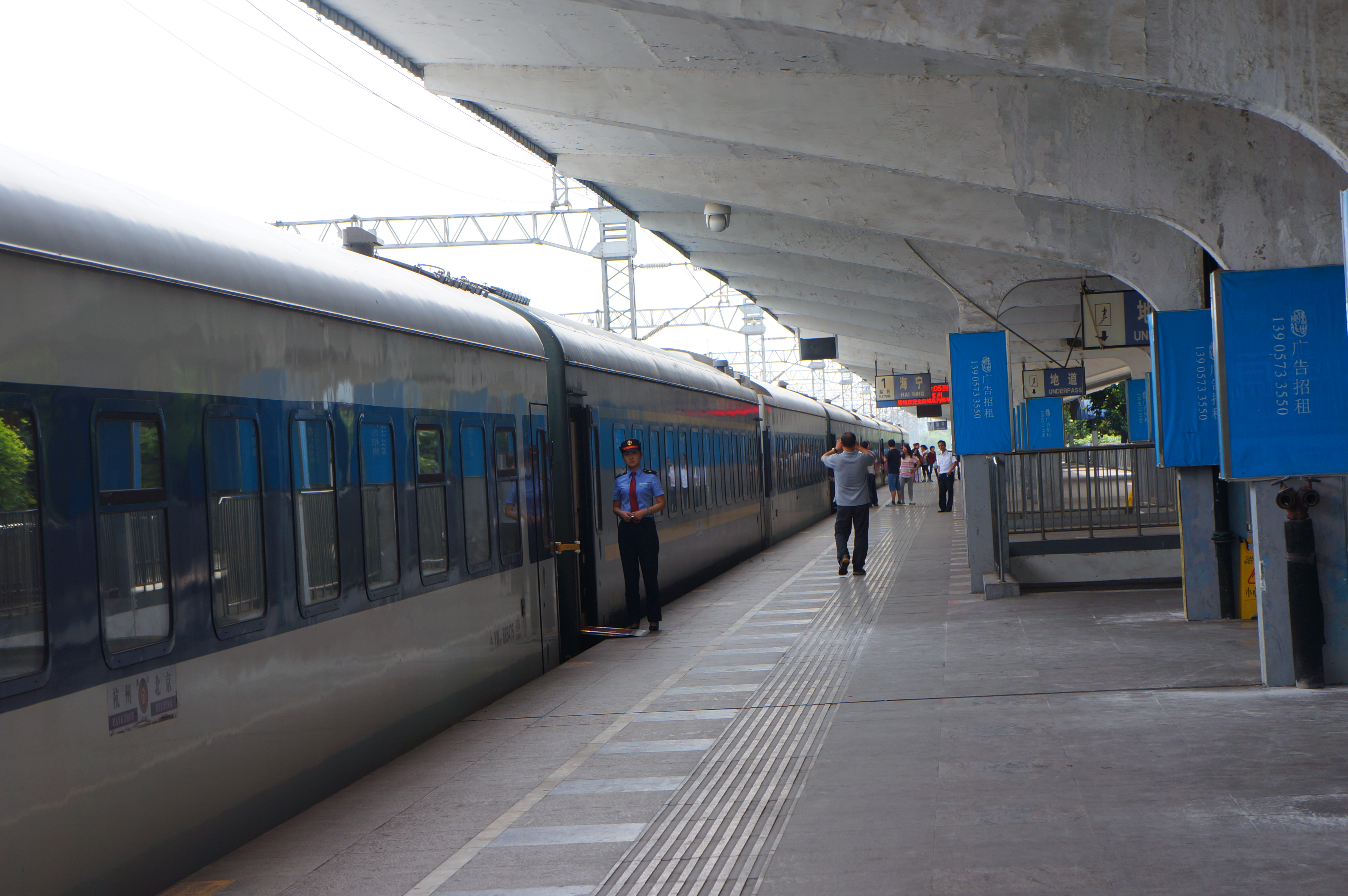 201606 Z9 at Haining Station